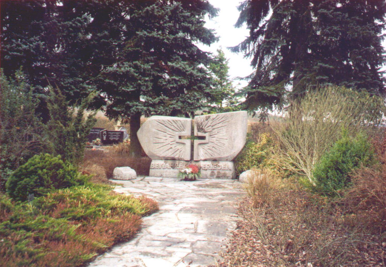 War memorial for the victims of WW I and WW II; located in Hausen, a quarter of the German spa town of Bad Kissingen (Lower Franconia, Bavaria)